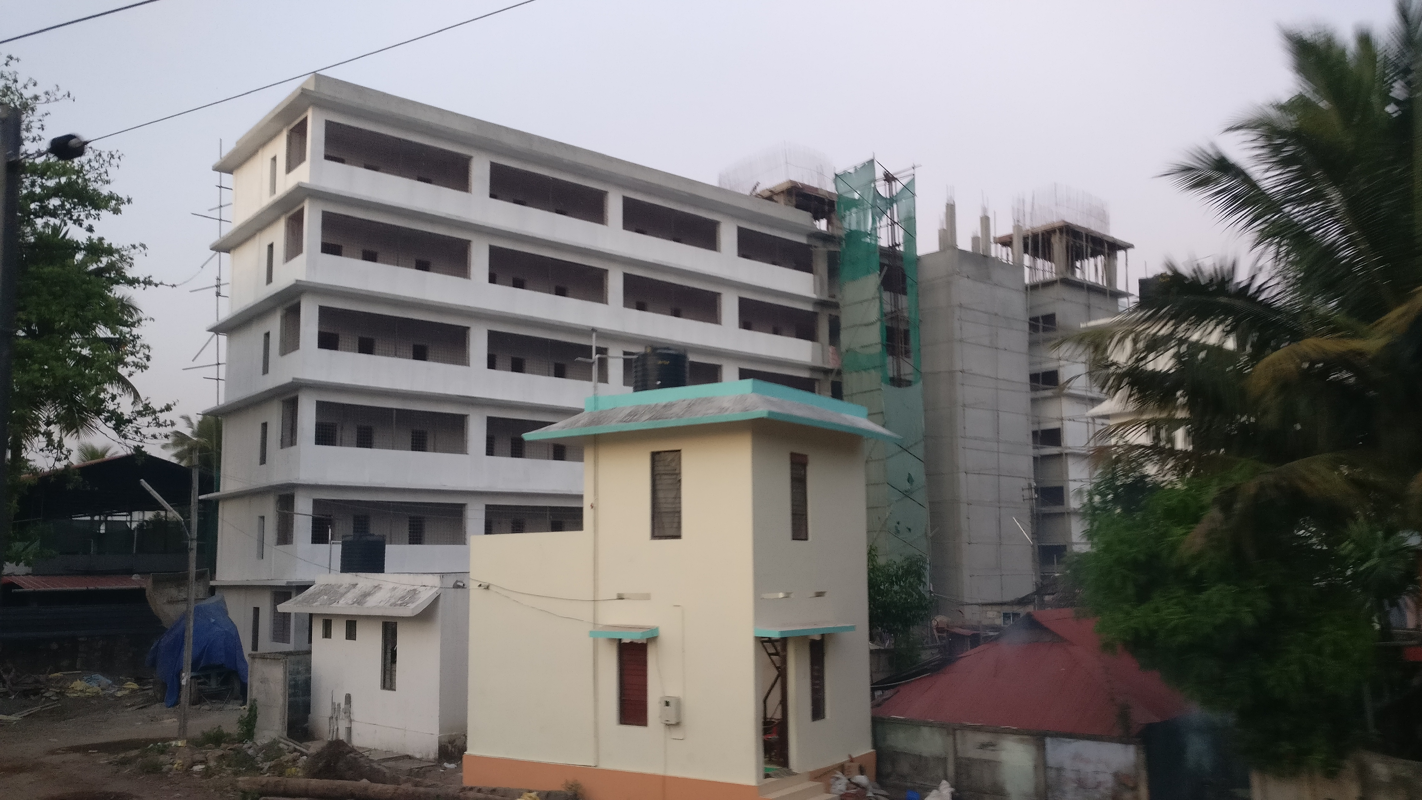 Apartments under construction stage at Kollam city in Kerala with the support of UPA Government's RAY project